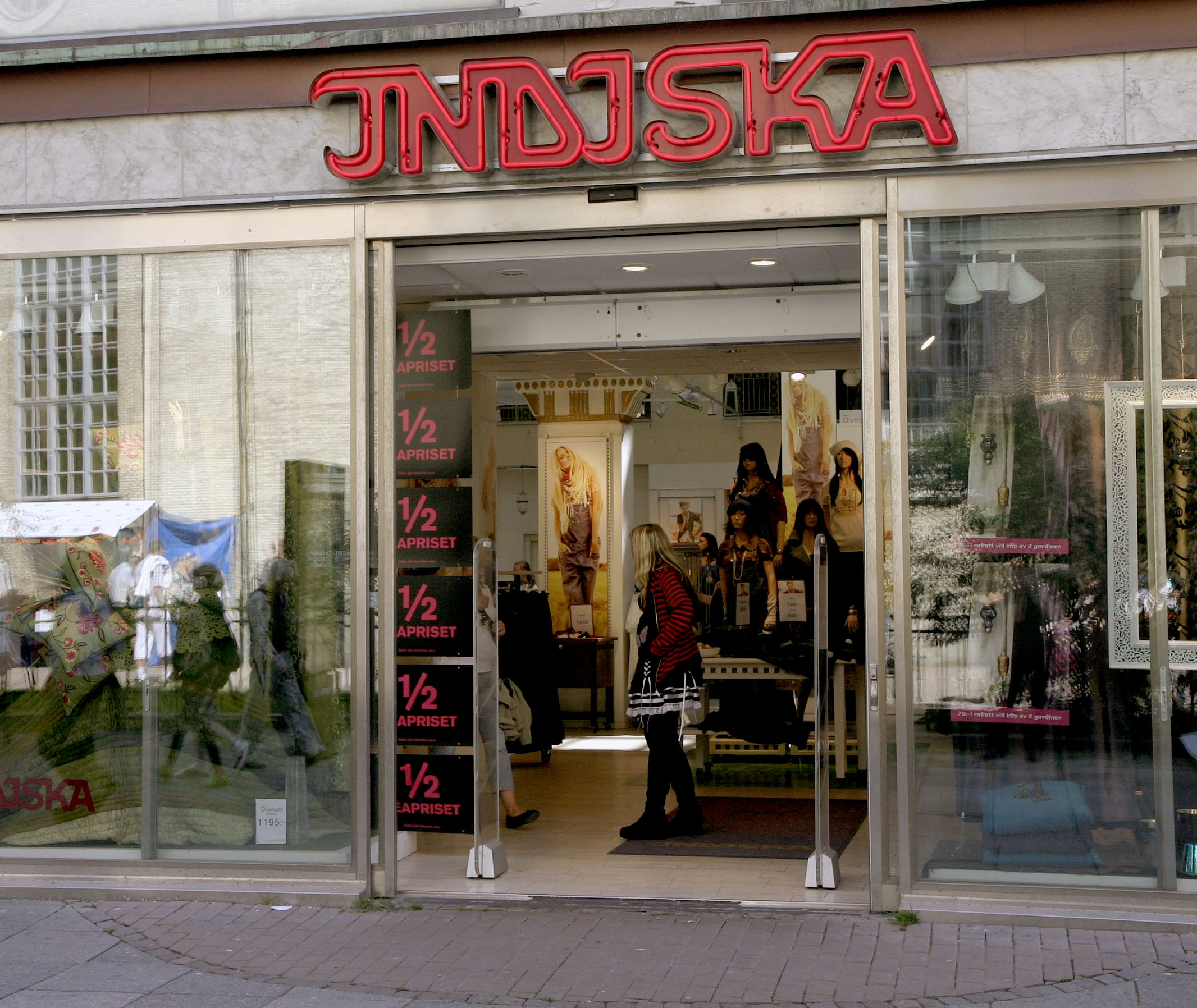 Entrance to an Indiska store in the Kungsgatan street in Gothenburg.